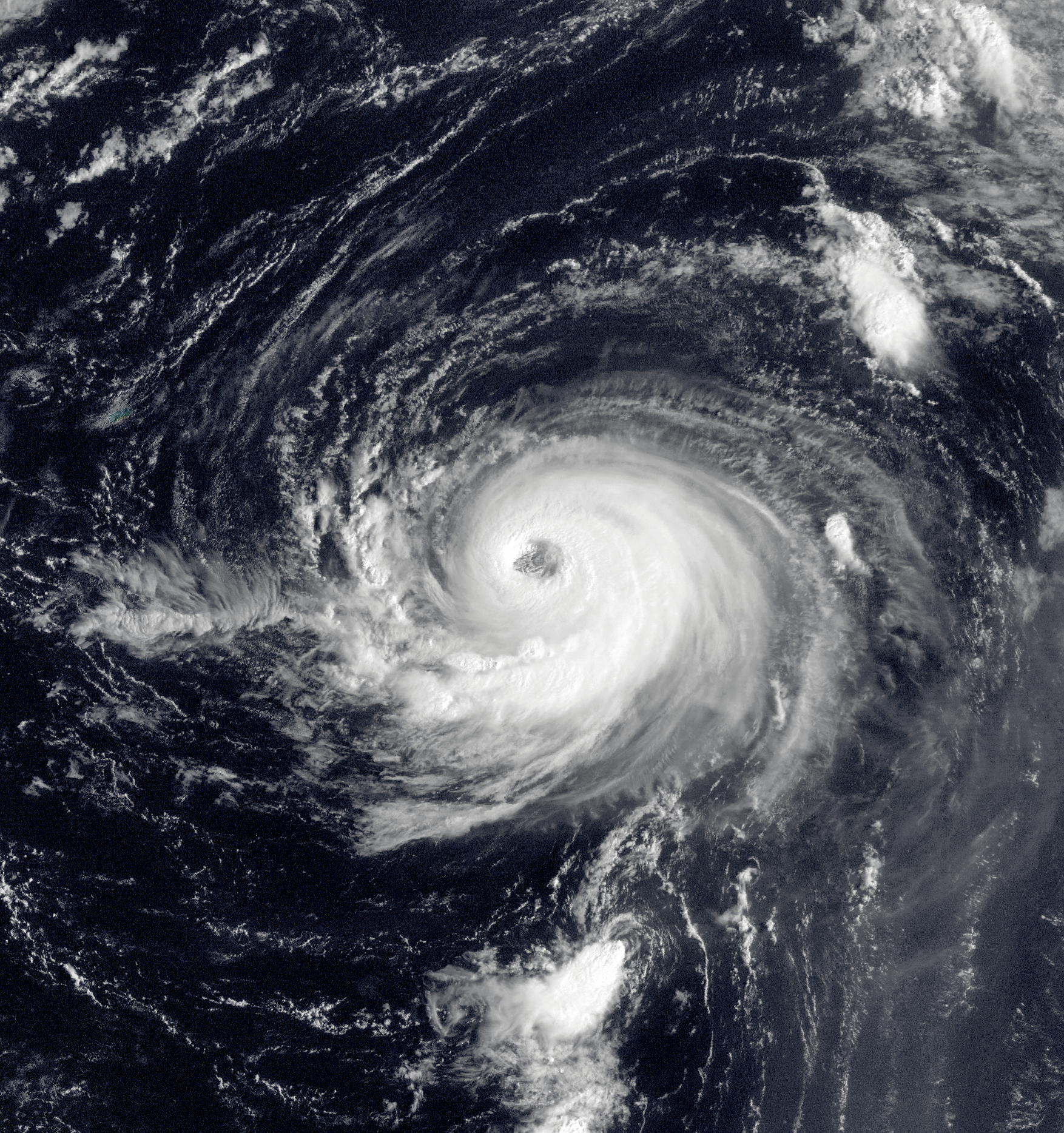 Hurricane Cindy at peak intensity on August 28, 1999